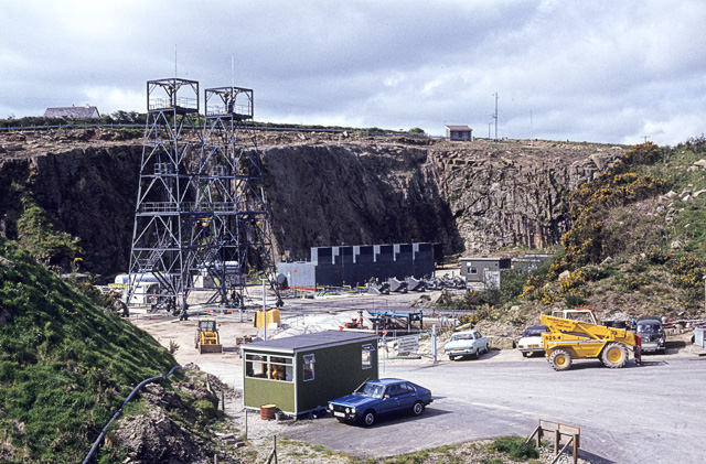 Rosemanowas Geothermal Energy Plant In 1983 we were allowed into the quarry area to trap small mammals in the surrounding rough grassland. The plant was strictly 'experimental'. The site is also known as Rosemanowes.